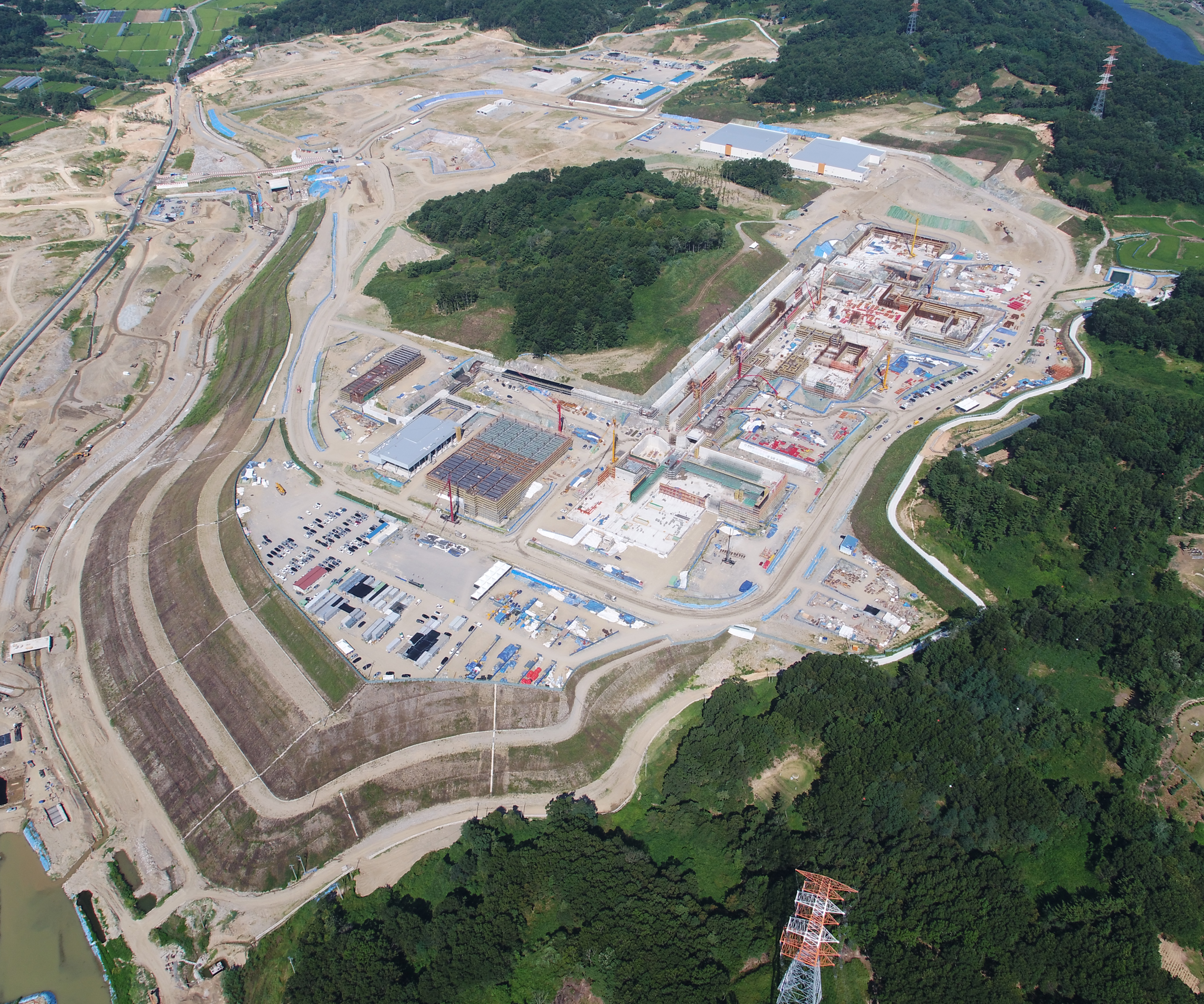 Construction of Rare Isotope Science Project (RISP)'s Rare Isotope Science Project (RAON) on 18 August 2018. Image was taken by a drone overlooking the facilities.